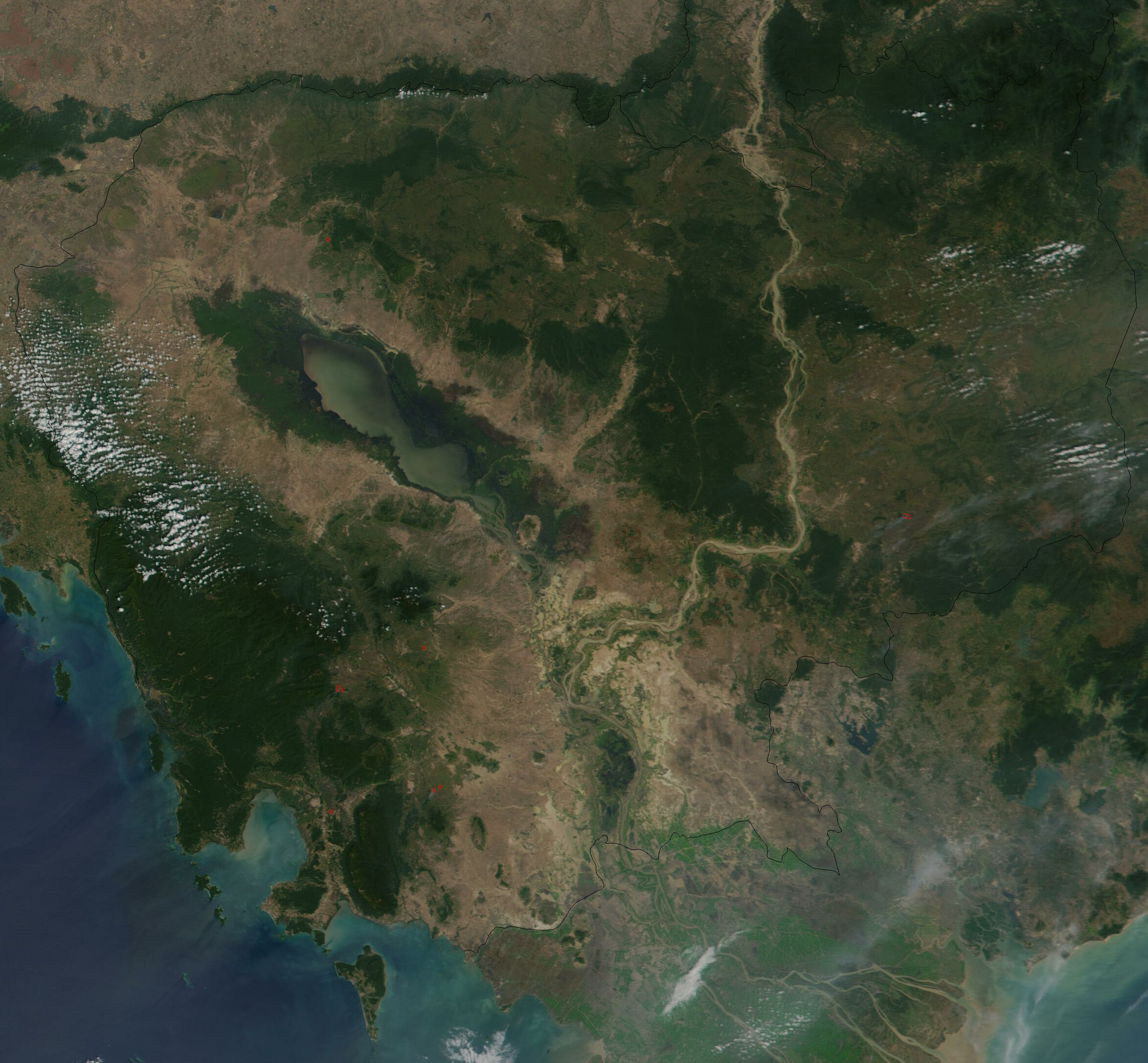 Satellite image of Cambodia in January 2002.